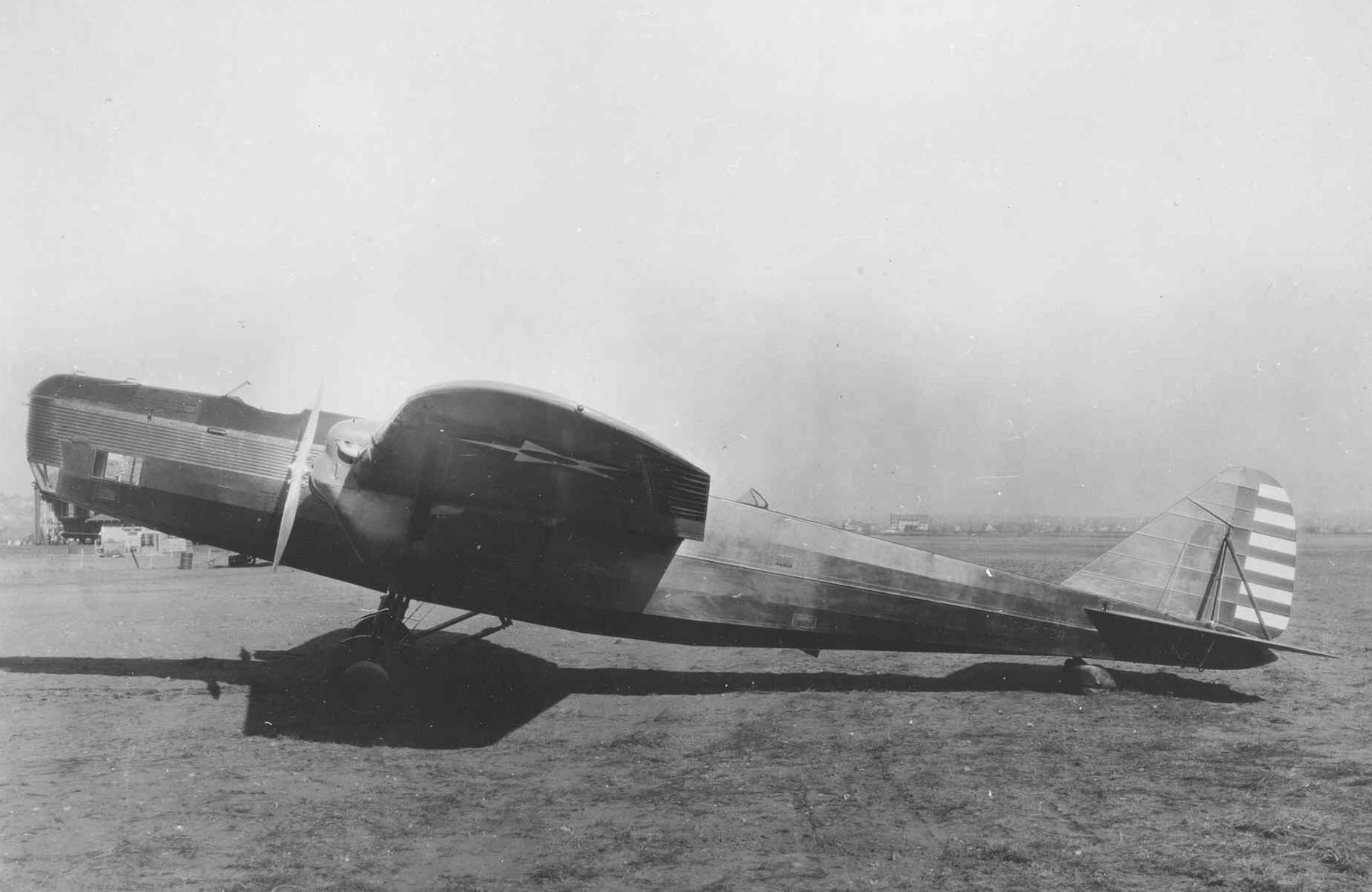 The Atlantic (Fokker) XB-8